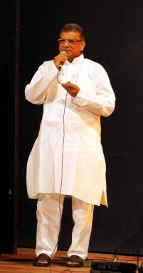 Dr. Vikas Amte